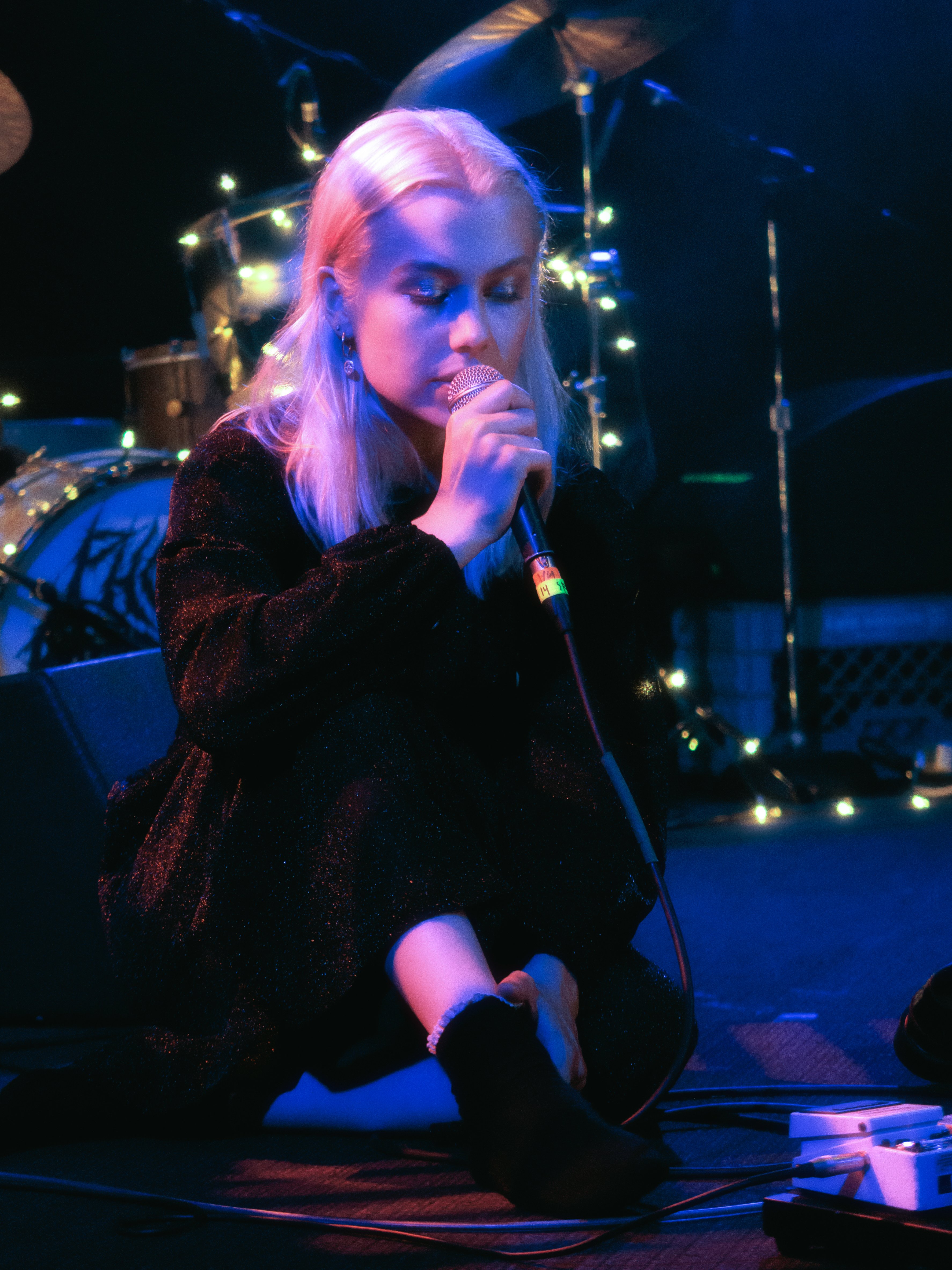 Phoebe Bridgers in July 2018, at the crocodile in Seattle.